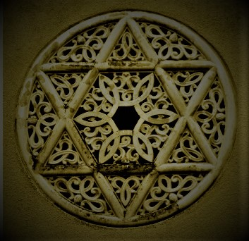 The Faith TempleFaith Temple (Templul Credința, Sinagoga Credinta, Templul Hevrah Amuna) on 48 Toneanu Vasile Street in Bucharest, Romania, Star of David